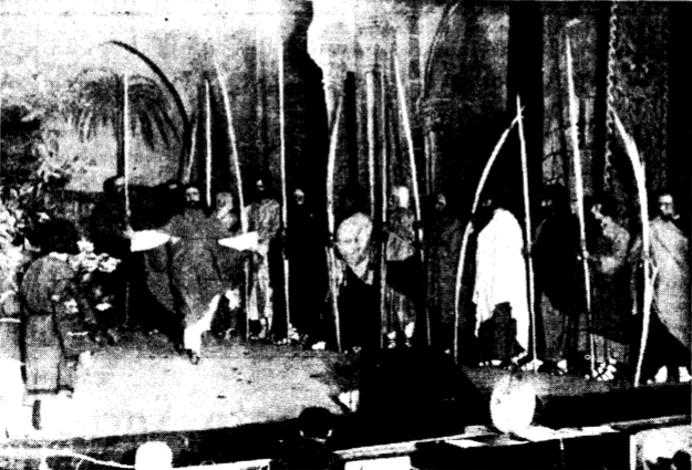 La Passió al Teatre Olesa l'any 1932 per la Companyia del Centre Tradicionalista (carlista).